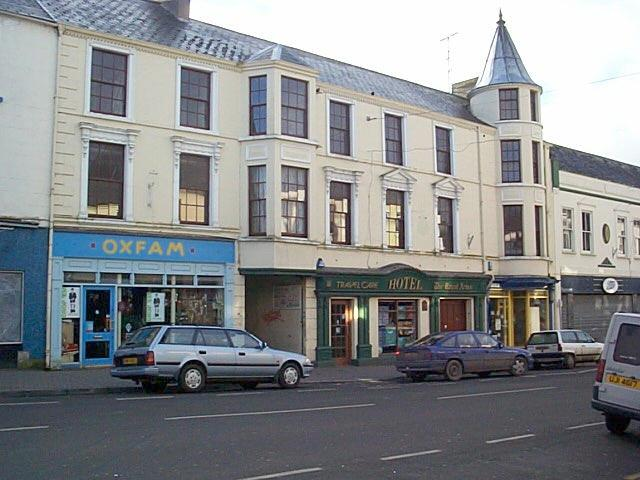 Royal Arms Hotel, Omagh